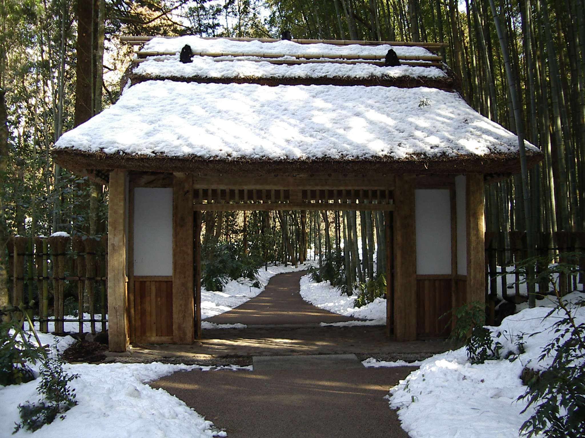 酒井別荘門の復元 とらや工房入り口（御殿場市） Entrance of Toraya koubou